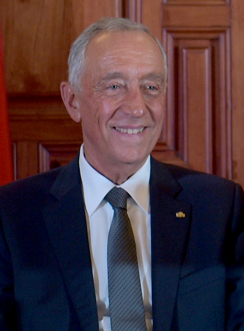 Marcelo Rebelo de Sousa, President of the Portuguese Republic, during a State Visit to Mexico, 17 July 2017.